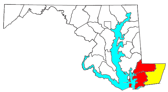 Locator map of the Salisbury-Ocean Pines Combined Statistical Area in the southeastern part of the U.S. state of Maryland. The two components of the CSA are colored separately: Salisbury Metropolitan Statistical Area: red Ocean Pines Micropolitan Statistical Area: yellow